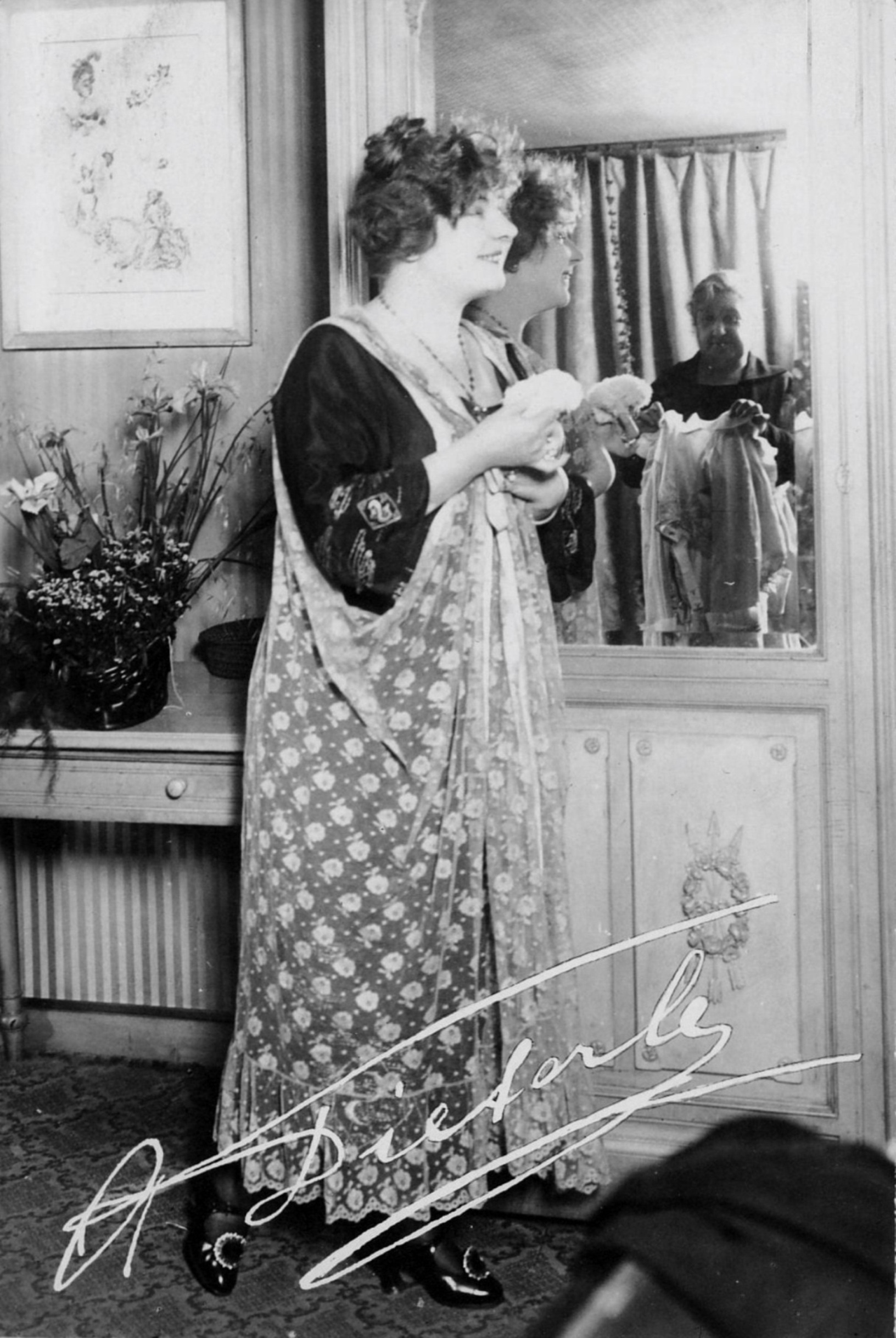 Amélie Diéterle is a French actress born in Strasbourg on 20 February 1871 and died in Cannes on 20 January 1941. She was legitimated in Paris in 1892 by Captain Louis Laurent, Knight of the Legion of Honor. Amélie Diéterle married in Vallauris on 16 June 1930 with André Simon (1877-1965). Amélie Diéterle plays mainly at the Théâtre des Variétés in Paris during the Belle Époque. Photography of the actress Amélie Diéterle in her dressing room at the Théâtre des Variétés in Paris around 1920.